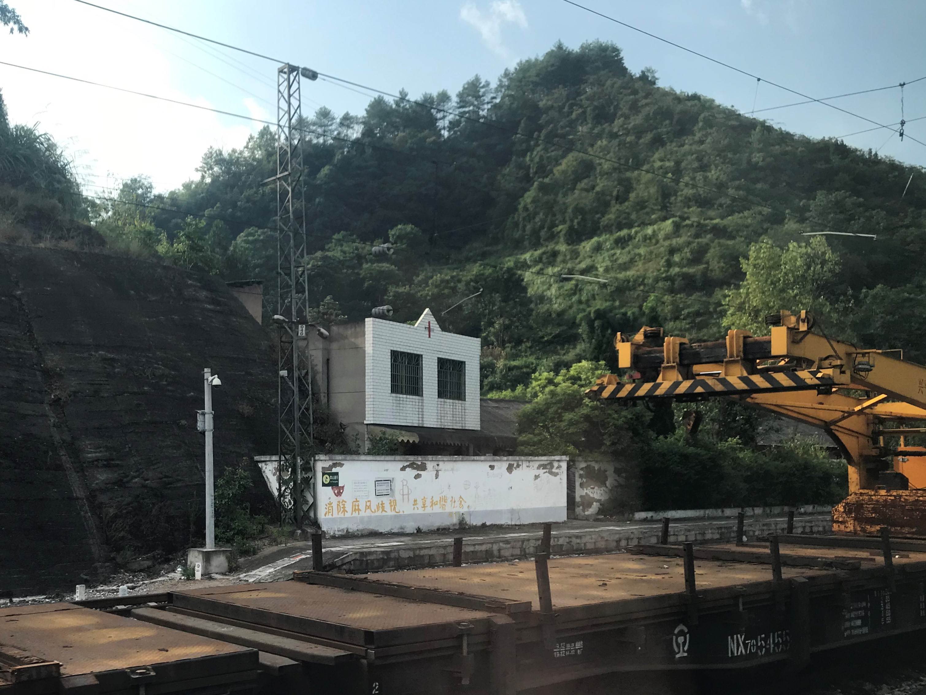 201908 Anti-Leprosy stigma/discrimination Slogan at Tongmuzhai Station